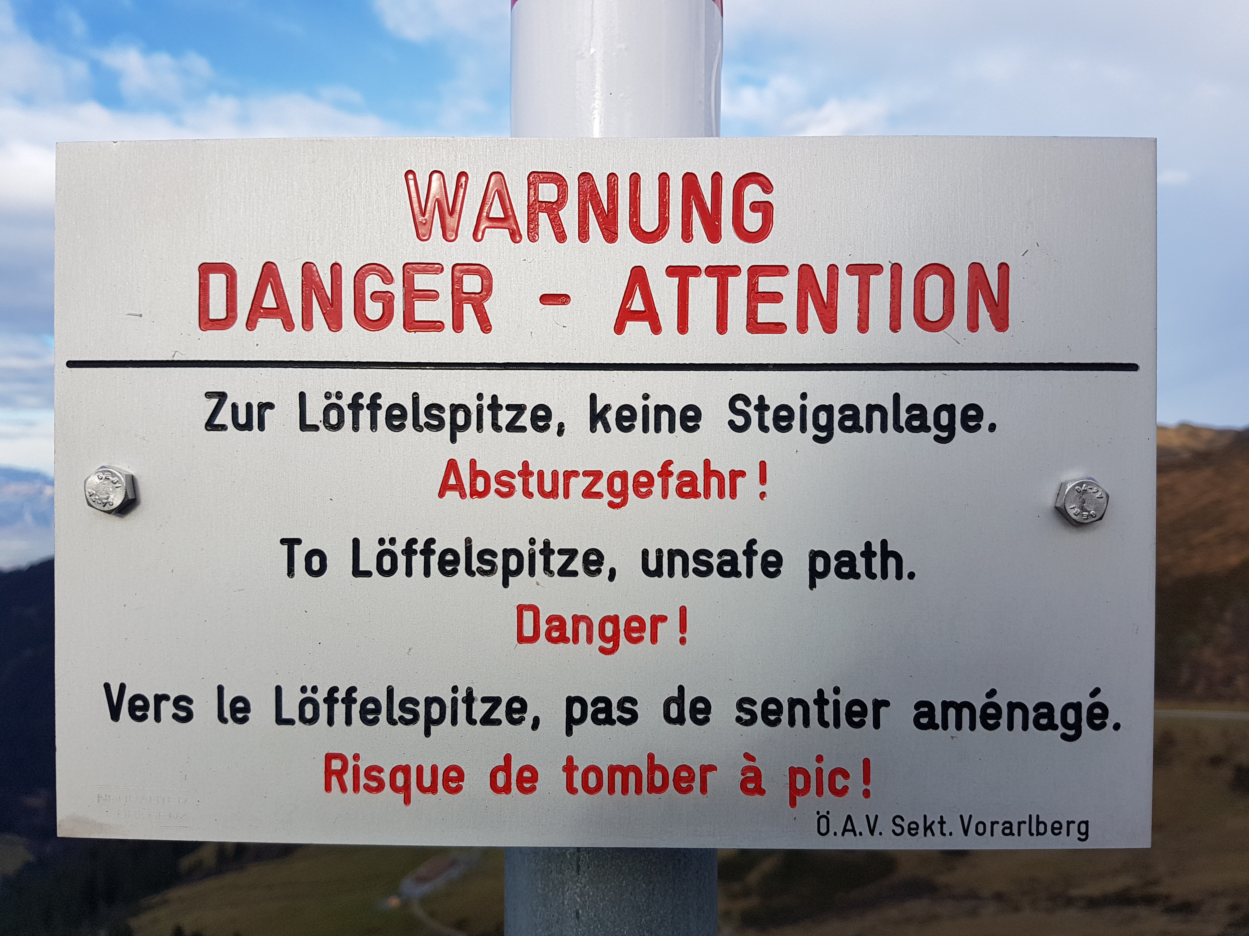 Warning sign on the Serajoechle in Vorarlberg, Austria. Danger to go to the Loeffelspitze (mountain), unsafe path.